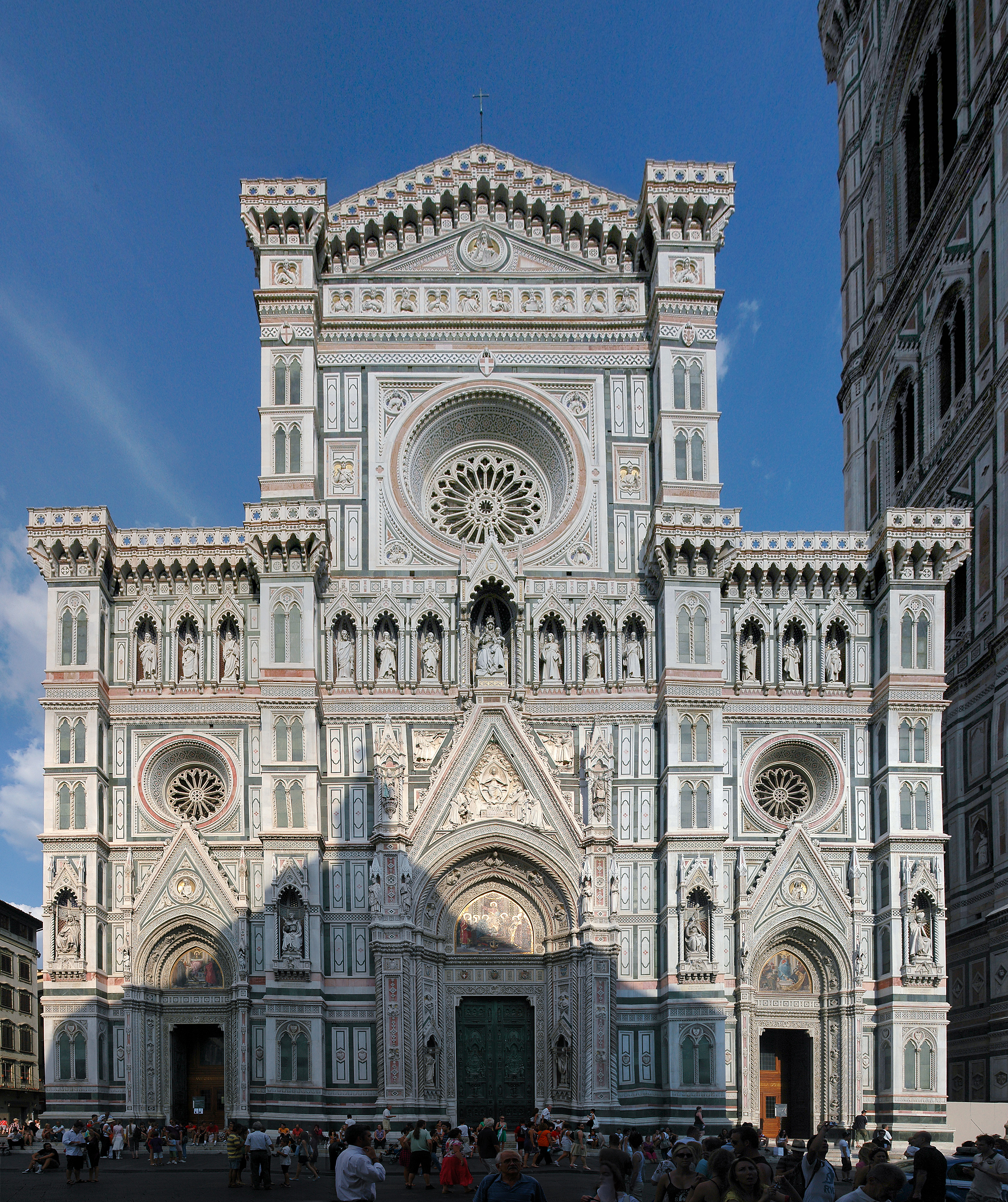 Front view of Santa Maria del Fiore (image has been stiched and may contain stiching errors)